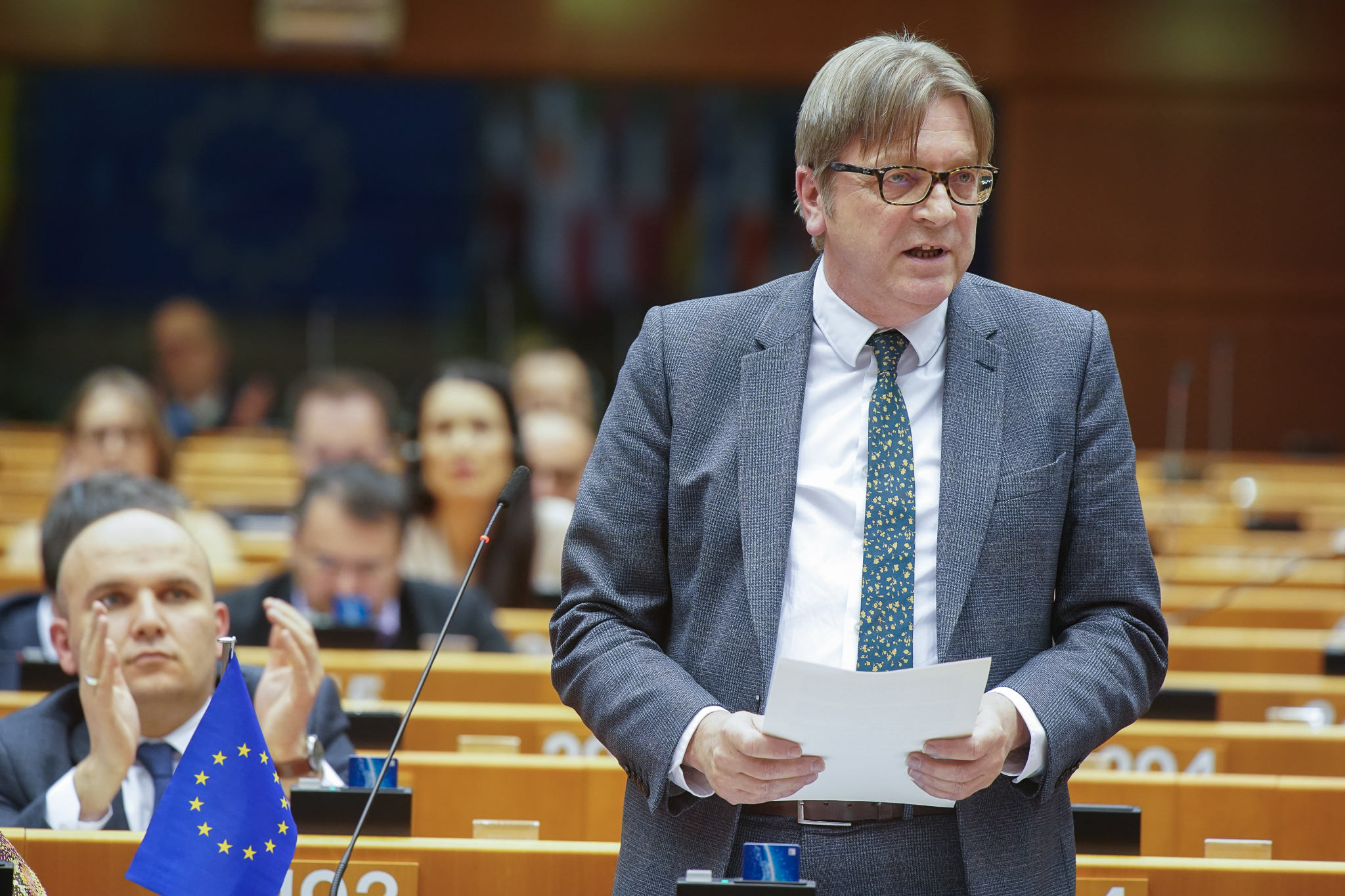 Watch our Top Story collection about the Brexit here: These photos are free to use under Creative Commons license CC-BY-4.0 and must be credited: "CC-BY-4.0: © European Union 2020 – Source: EP". No model release form if applicable. For bigger HR files please contact: photobookings(AT)